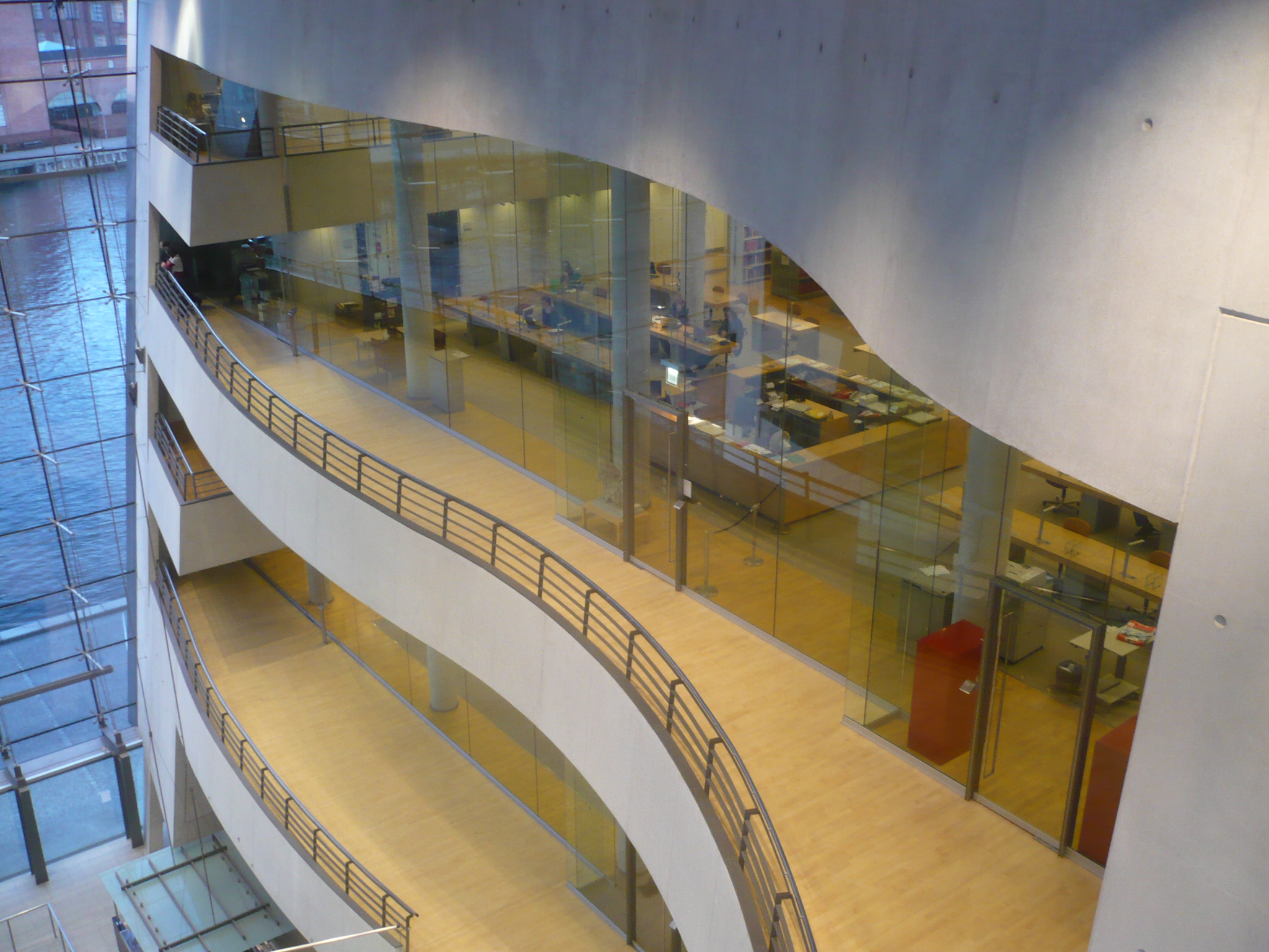 The sides of the atrium in the Black Diamond library extension in Copenhagen, Denmark